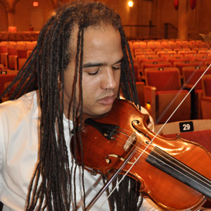 HDaniel Bernard Roumain rehearsing with Maestro Bramwell Tovey and the Vancouver Symphony Orchestra.